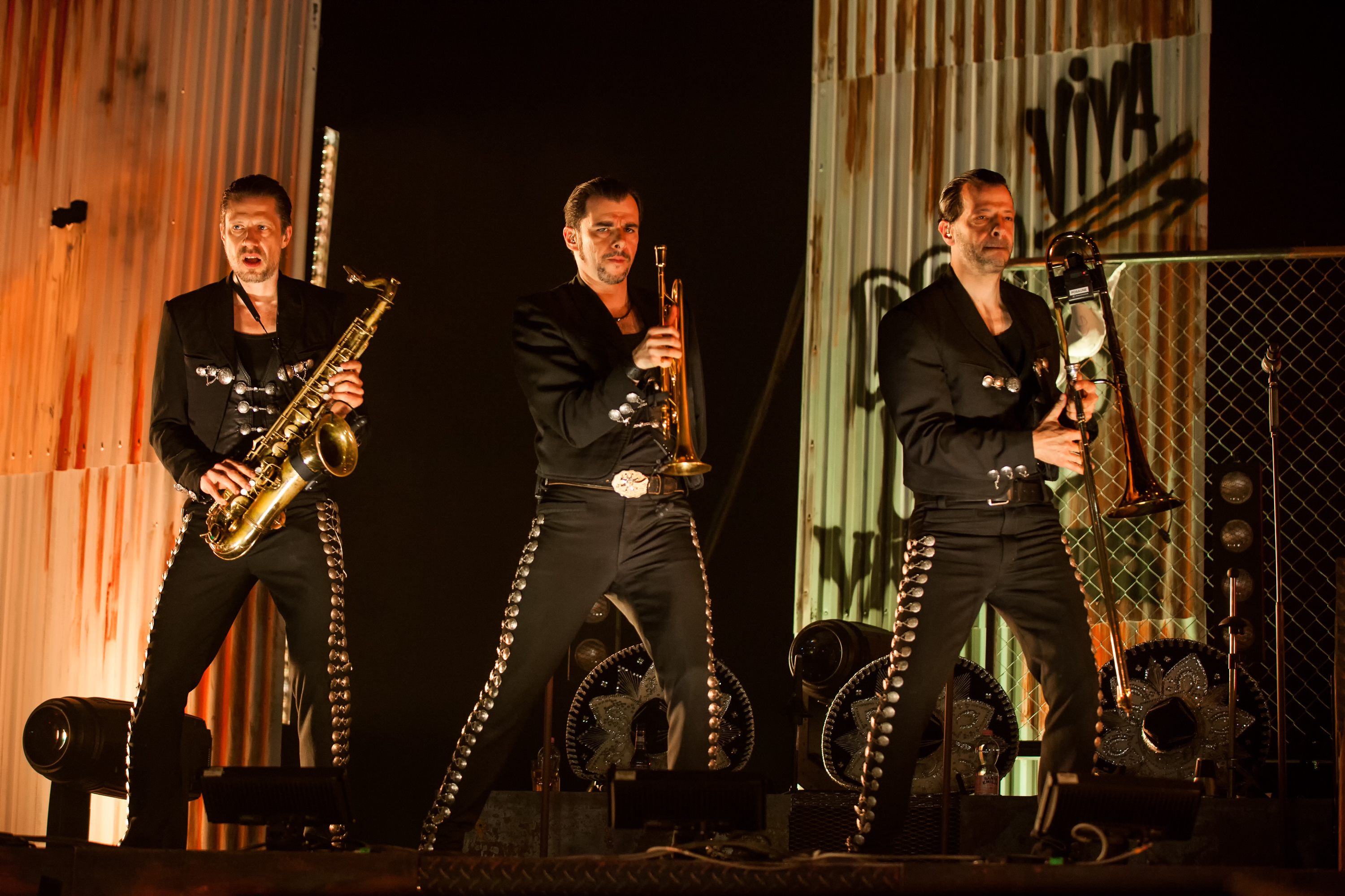 The BossHoss at Arena Show in Koenig Pilsener Arena, Oberhausen, Germany